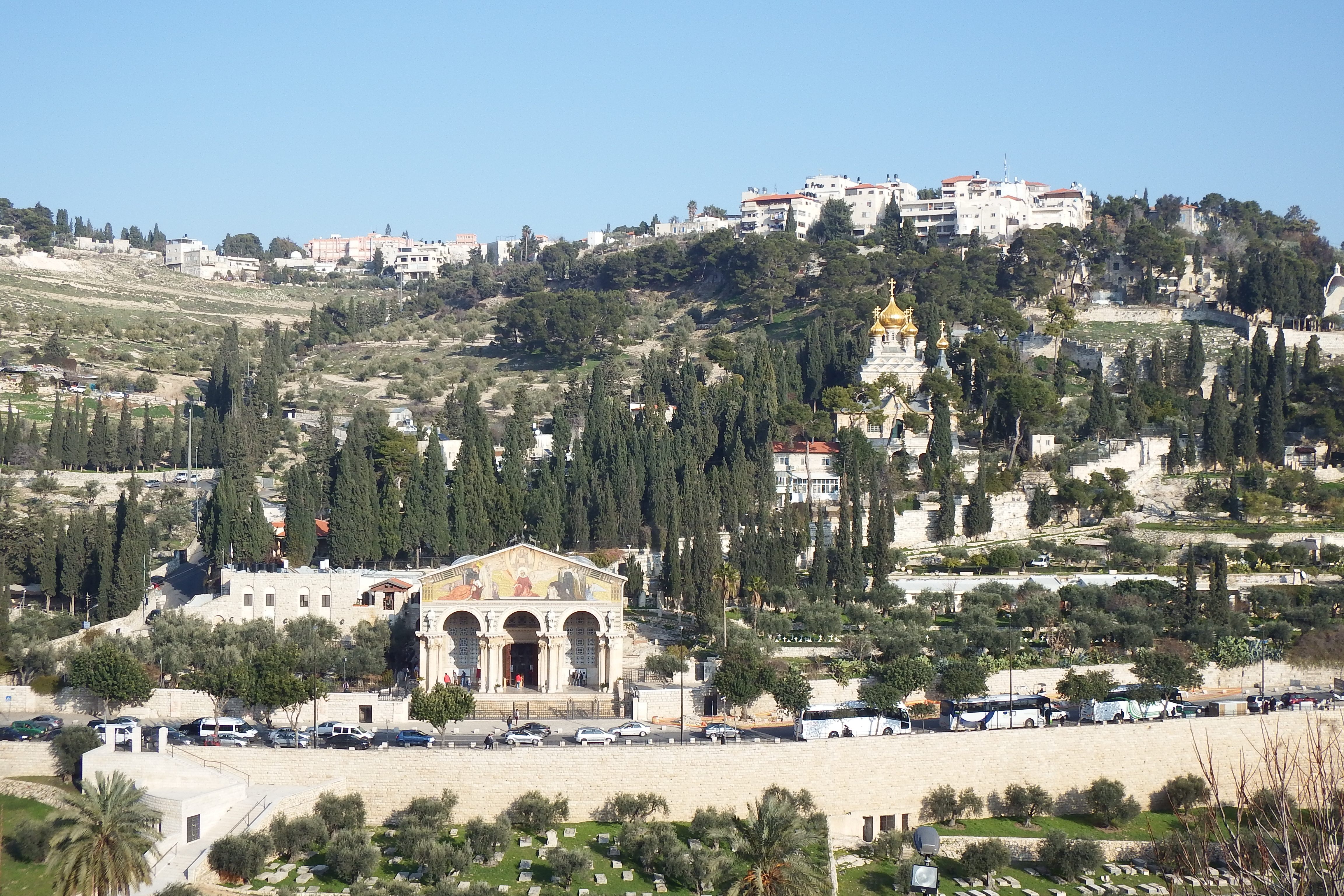 The view from Golden Gate. Jerusalem